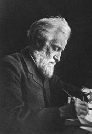 Photograph of American author and geologist Nathaniel Southgate Shaler (1841-1906). From the frontispiece to The Autobiography of Nathaniel Southgate Shaler, Houghton Mifflin Company, 1909.